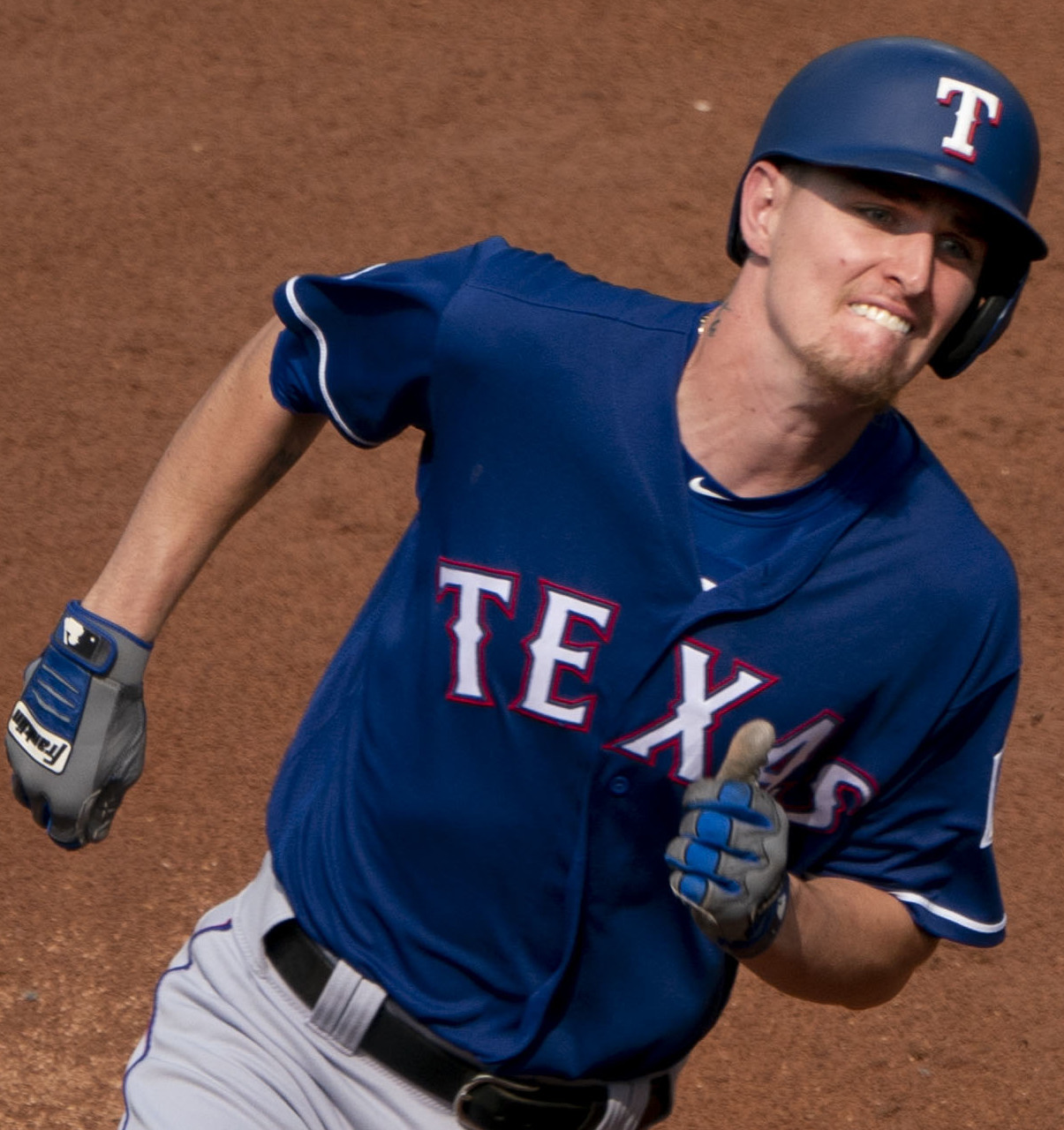 Rangers at Orioles 7/15/18